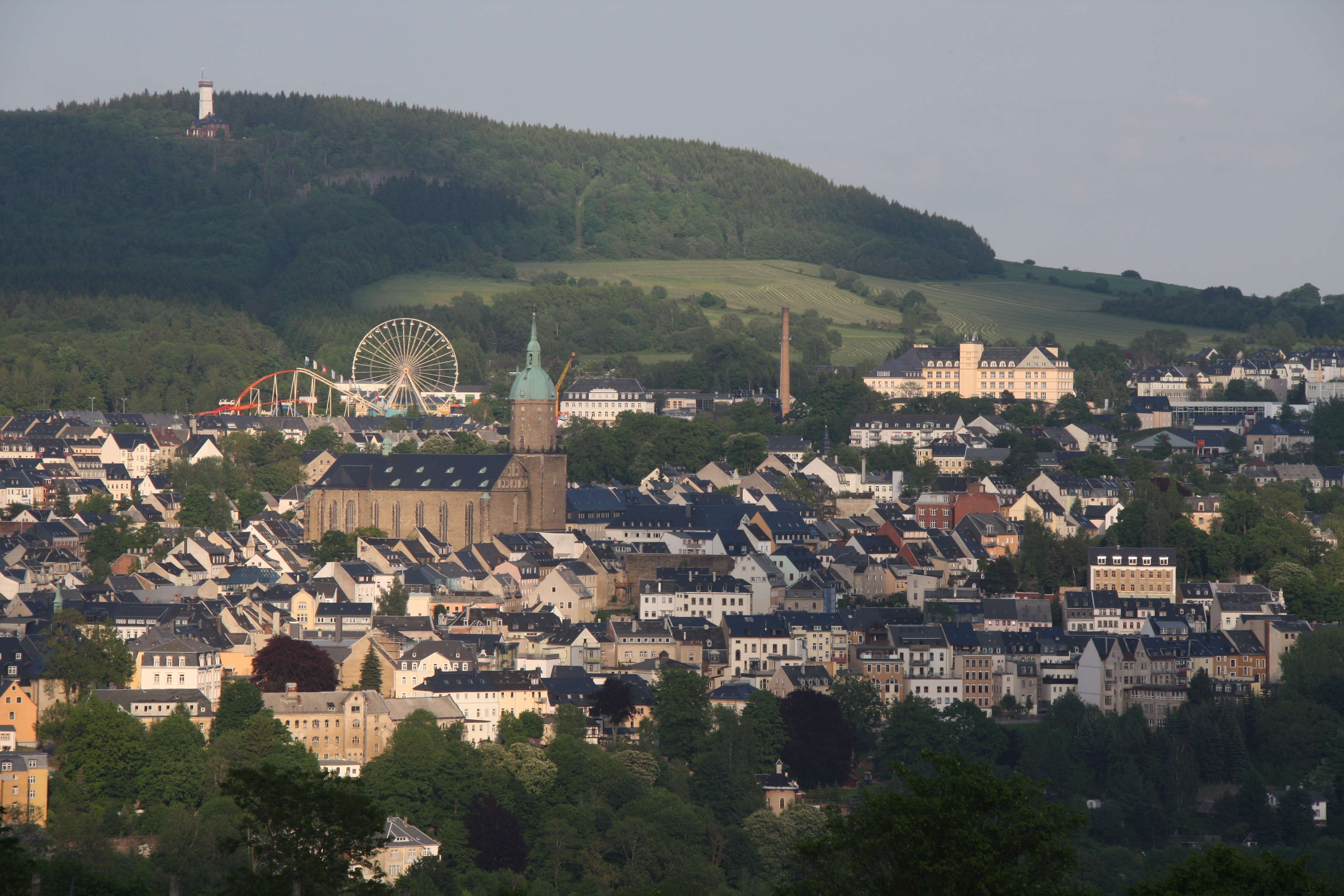 Annaberg, Kät